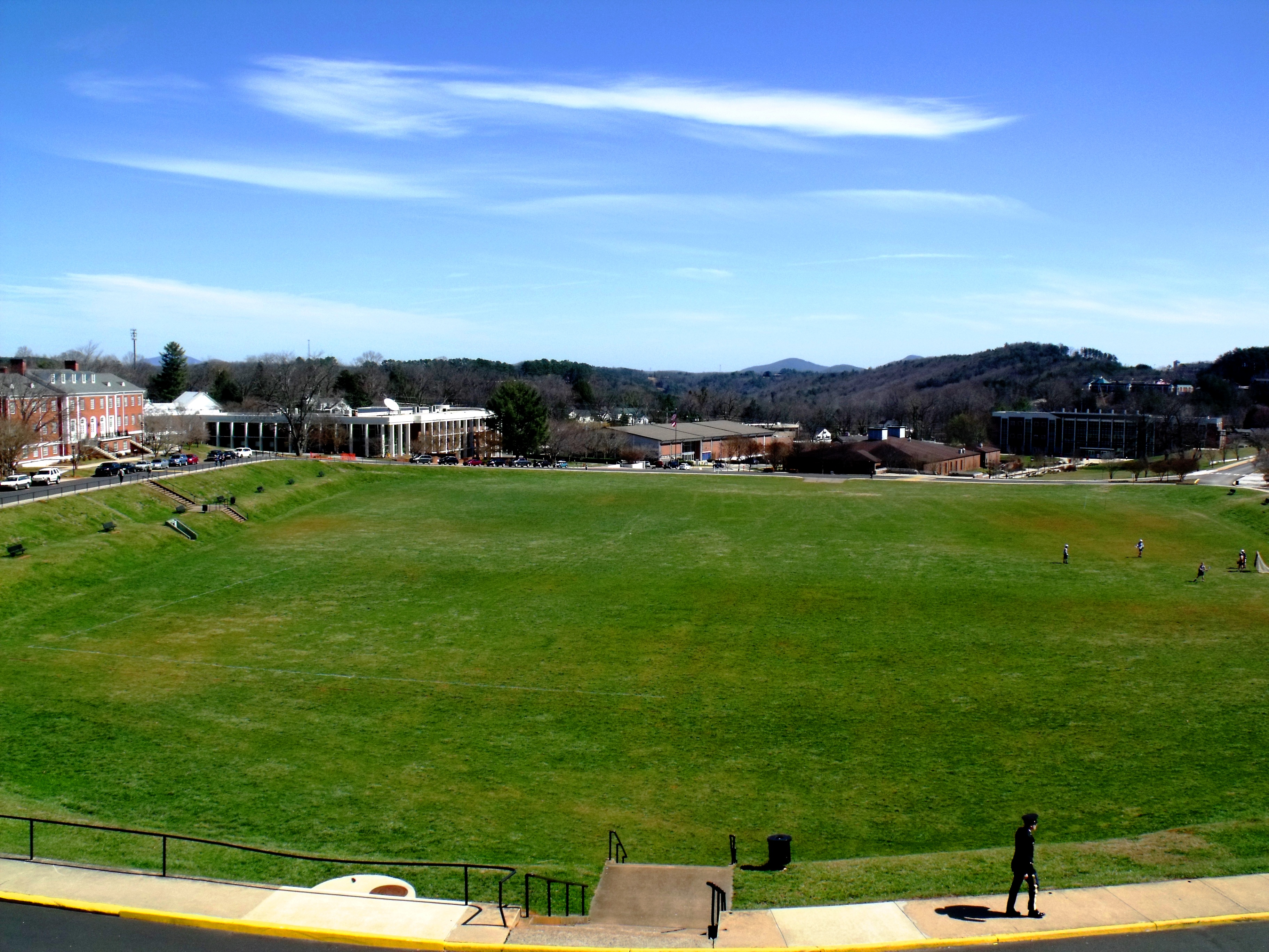 The William Livsey Drill Field at the University of North Georgia (Livsey's alma mater)